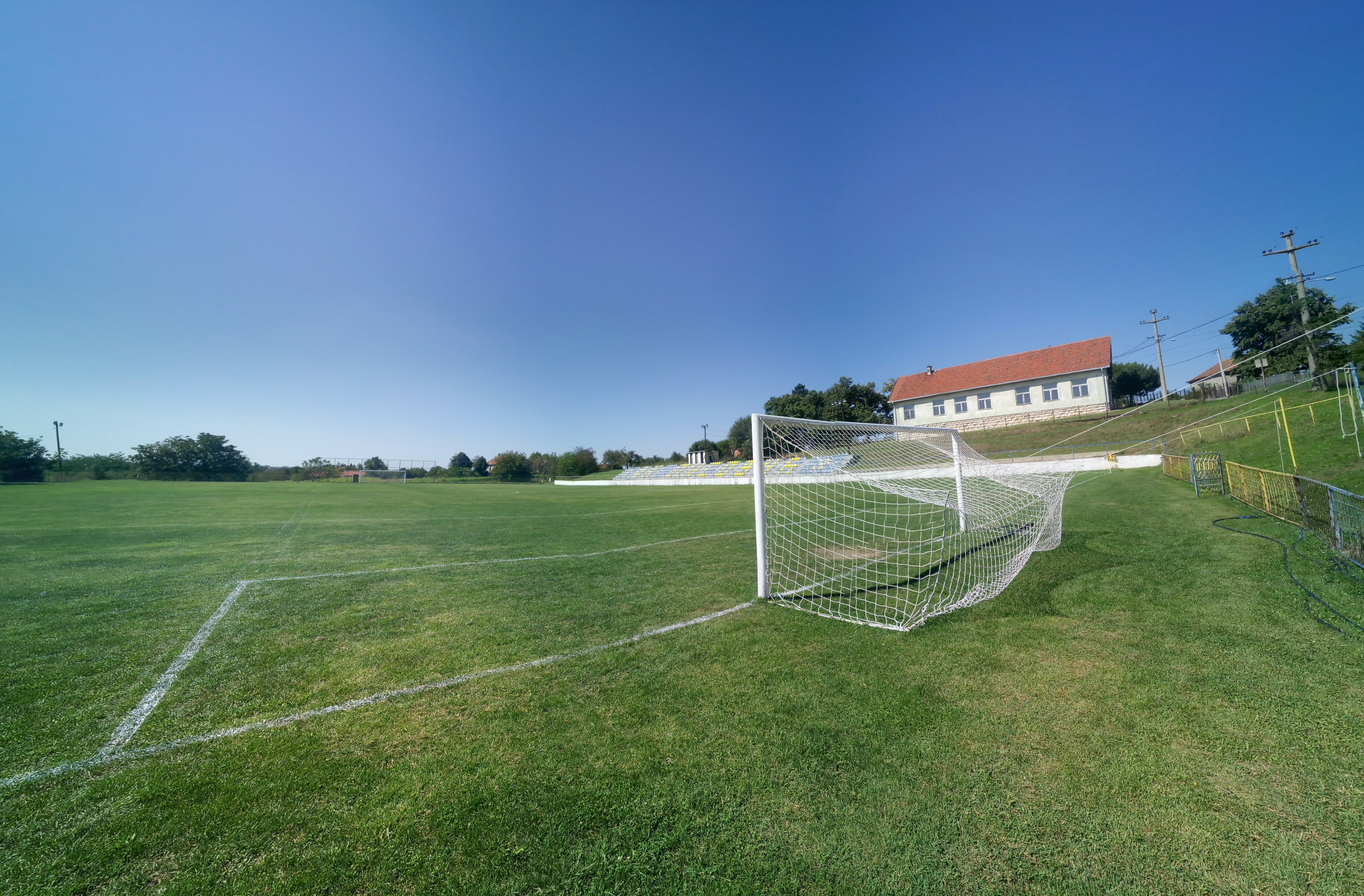 Stadion FK Lisović